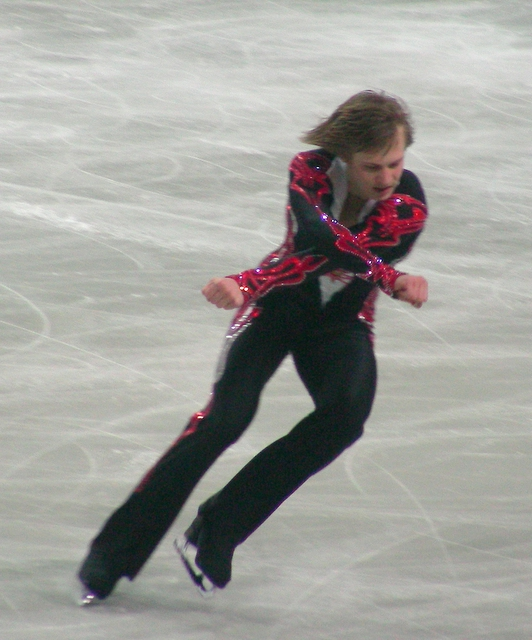 Sergei Dobrin on the 2007 European Figure Skating Championships in Warsaw - free skate